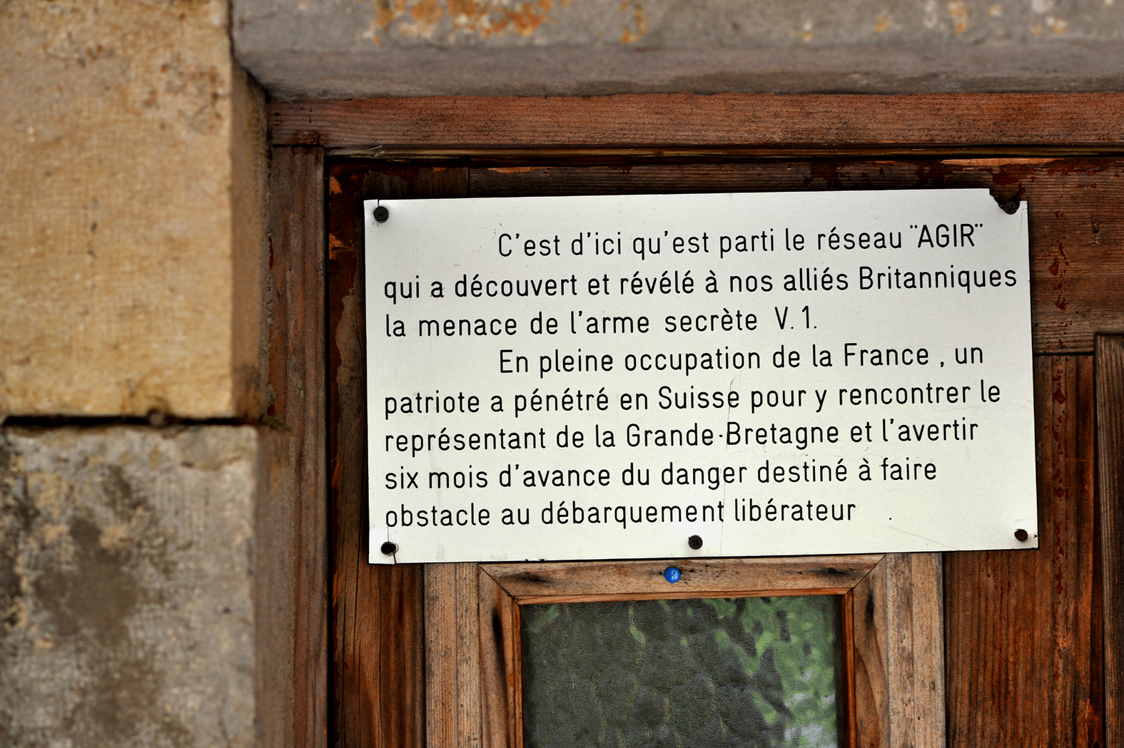 Auberge du Vieux Châteleu; Doubs, France. Panel at the main door informing about the start of Réseau Agir activities.